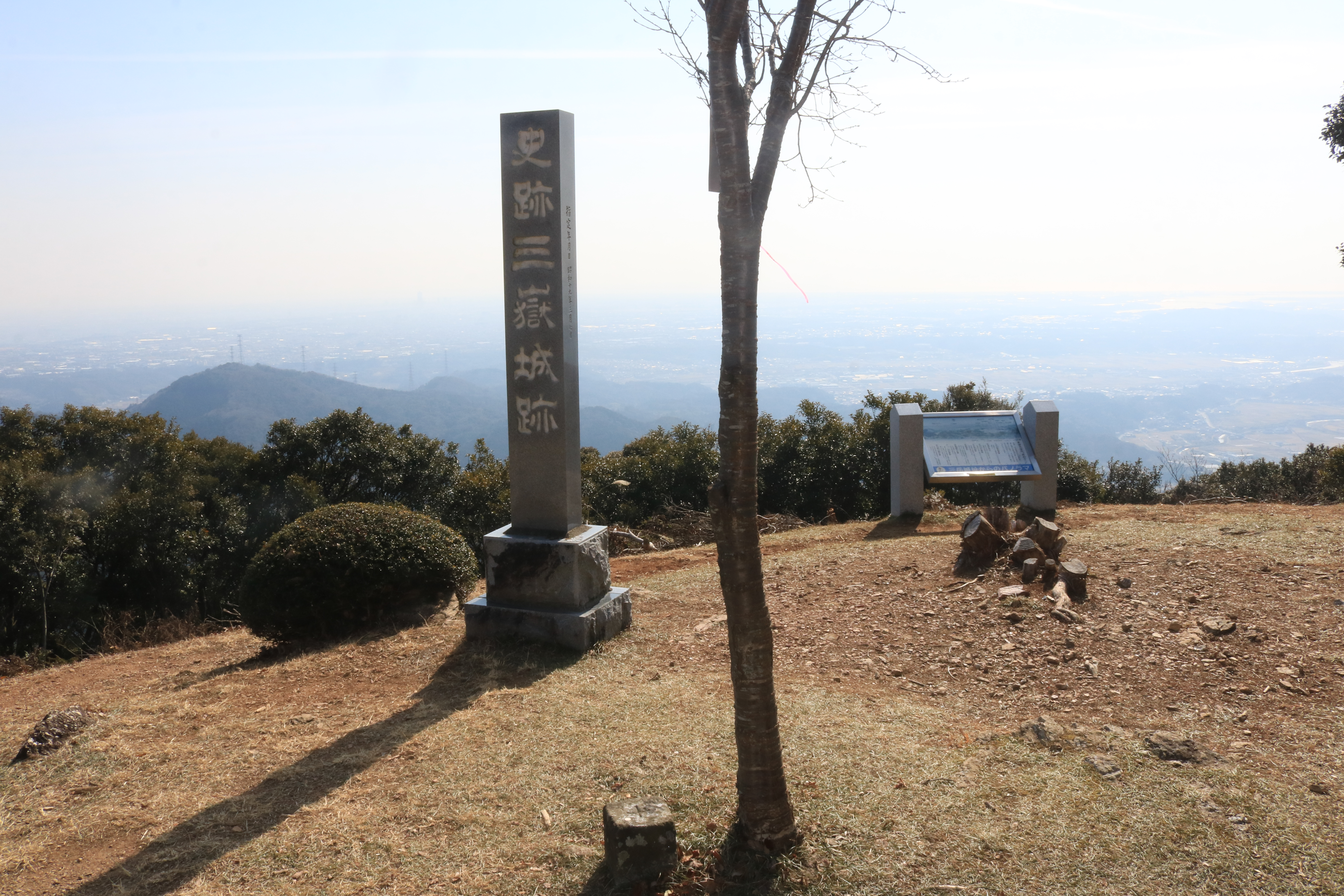 Mitake Castle Site in Kita-ku, Hamamatsu, Shizuoka Prefecture, Japan.